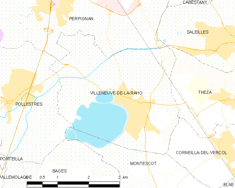 Map of French municipality